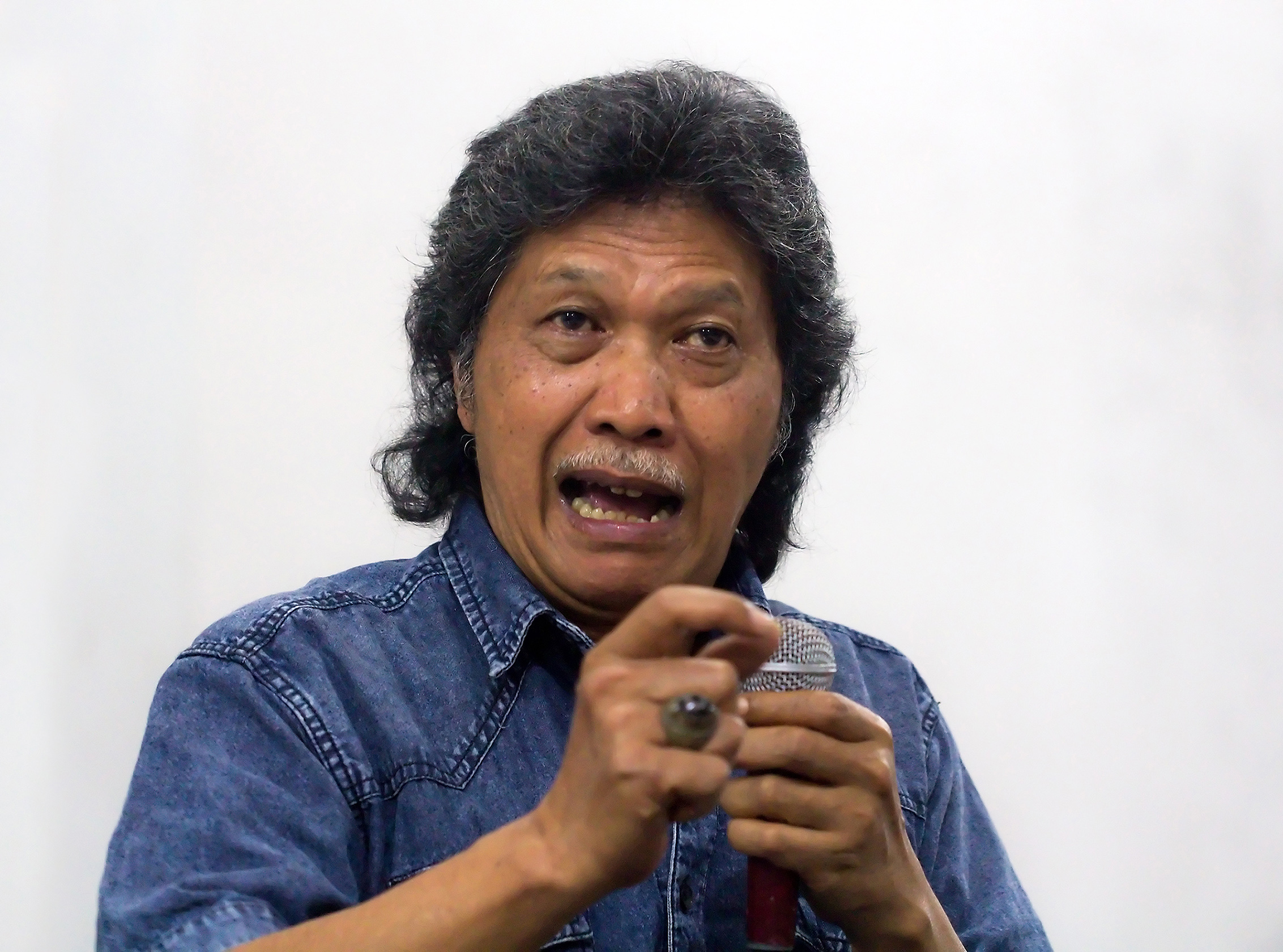 Indonesian poet Emha Ainun Nadjib (also known as Cak Nun) speaking at the slametan for Sitok Srengenge's new poetry collection Ereignis dan Cinta yang Keras Kepala, 2015-08-22